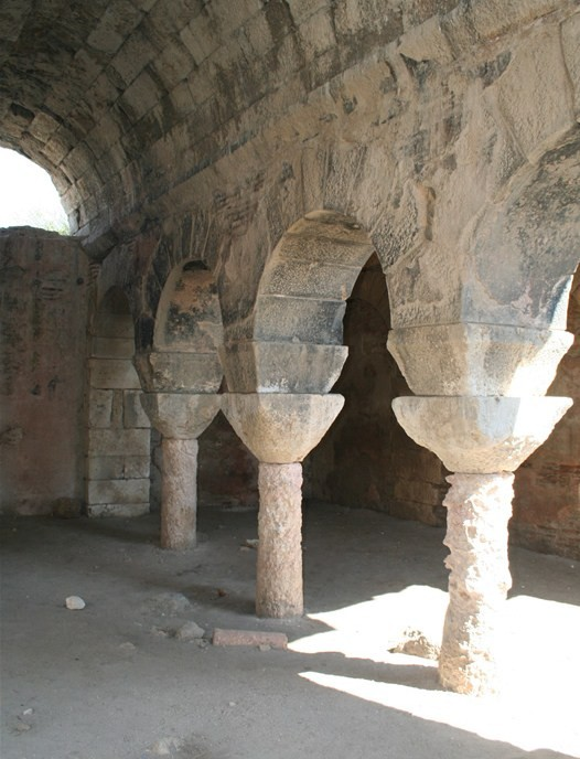 Martyrium of Saint Thecla, at Silifke, Ayatekla (Turkey), church